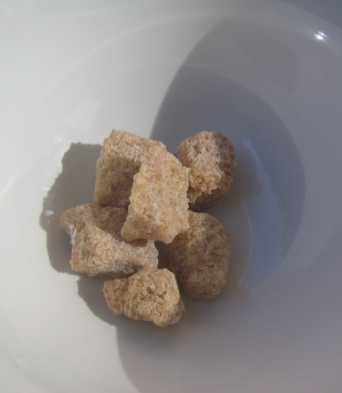 Sugar cubes which were lifted from a nice restaurant for a photographic opportunity.